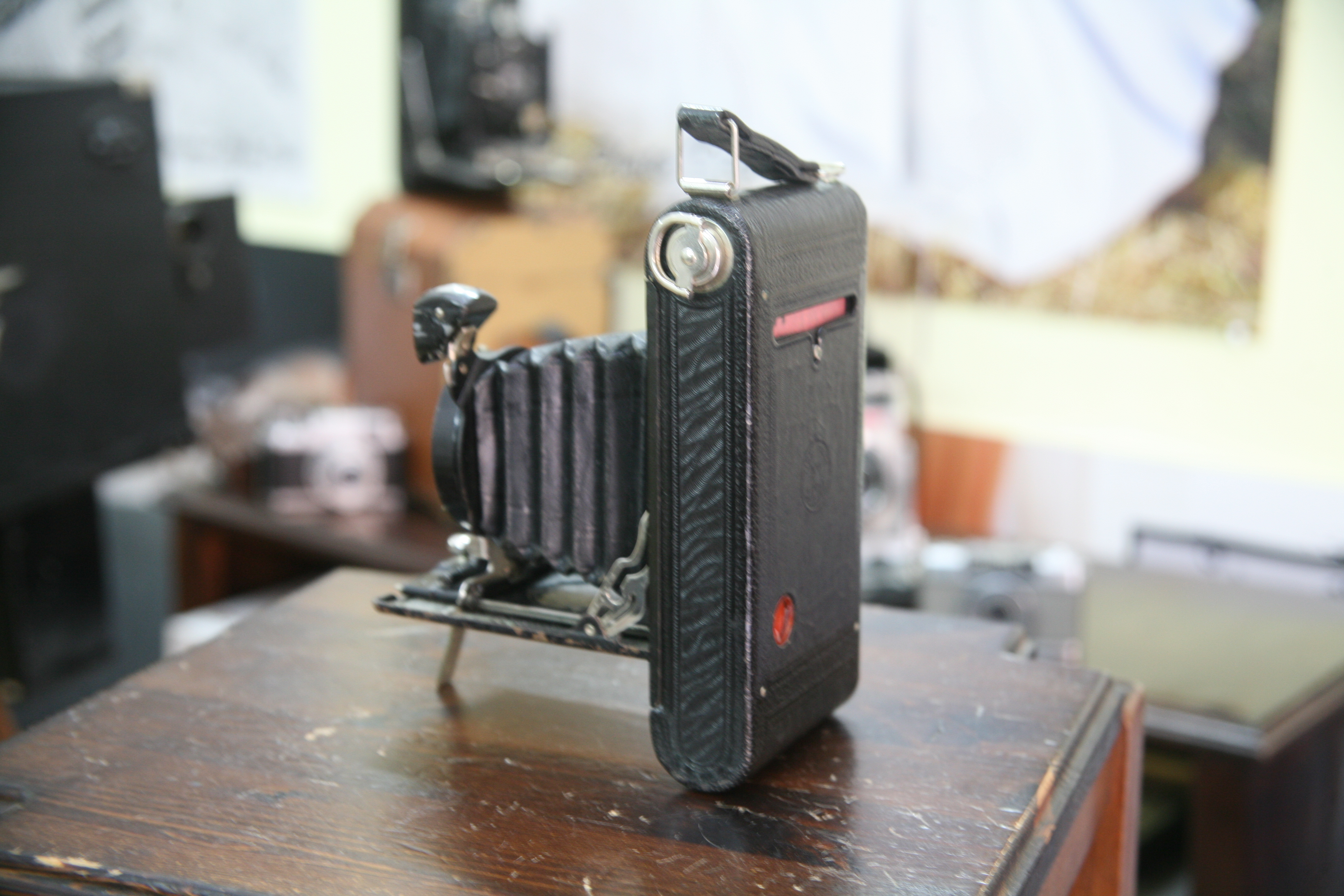 Kodak No. 1 series II is a folding A120 film camera made from 1922 to 1931